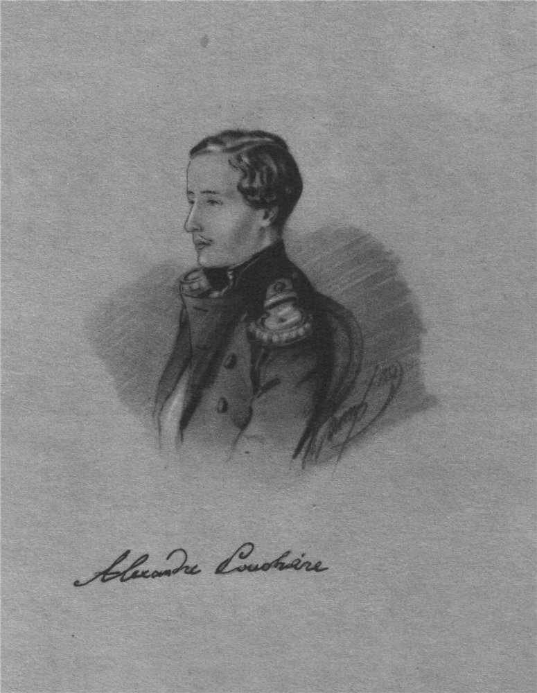 Alexander Aleksandrovich Pushkin (1833-1914) — the Russian military man and the statesman. The son of poet Alexander Sergeevich Pushkin.